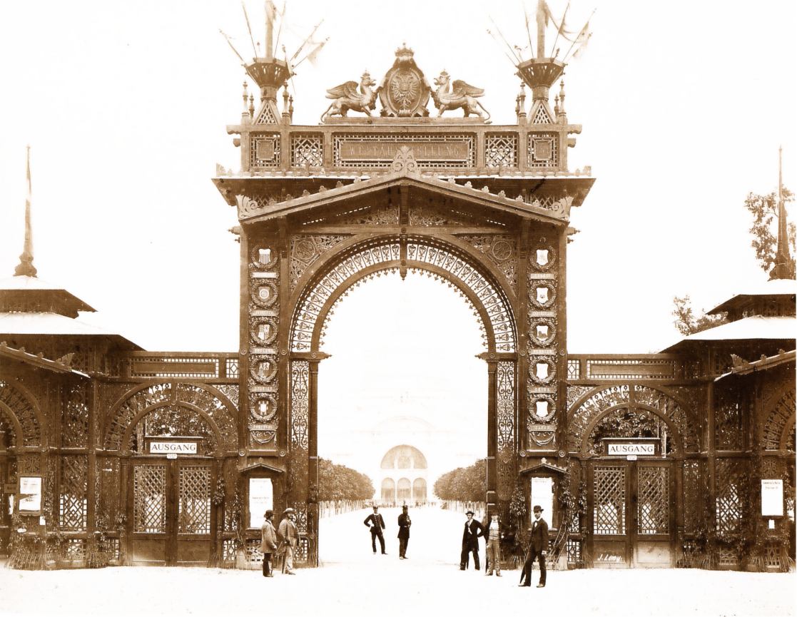 Main entrance to the exposition grounds of the world's fair 1873